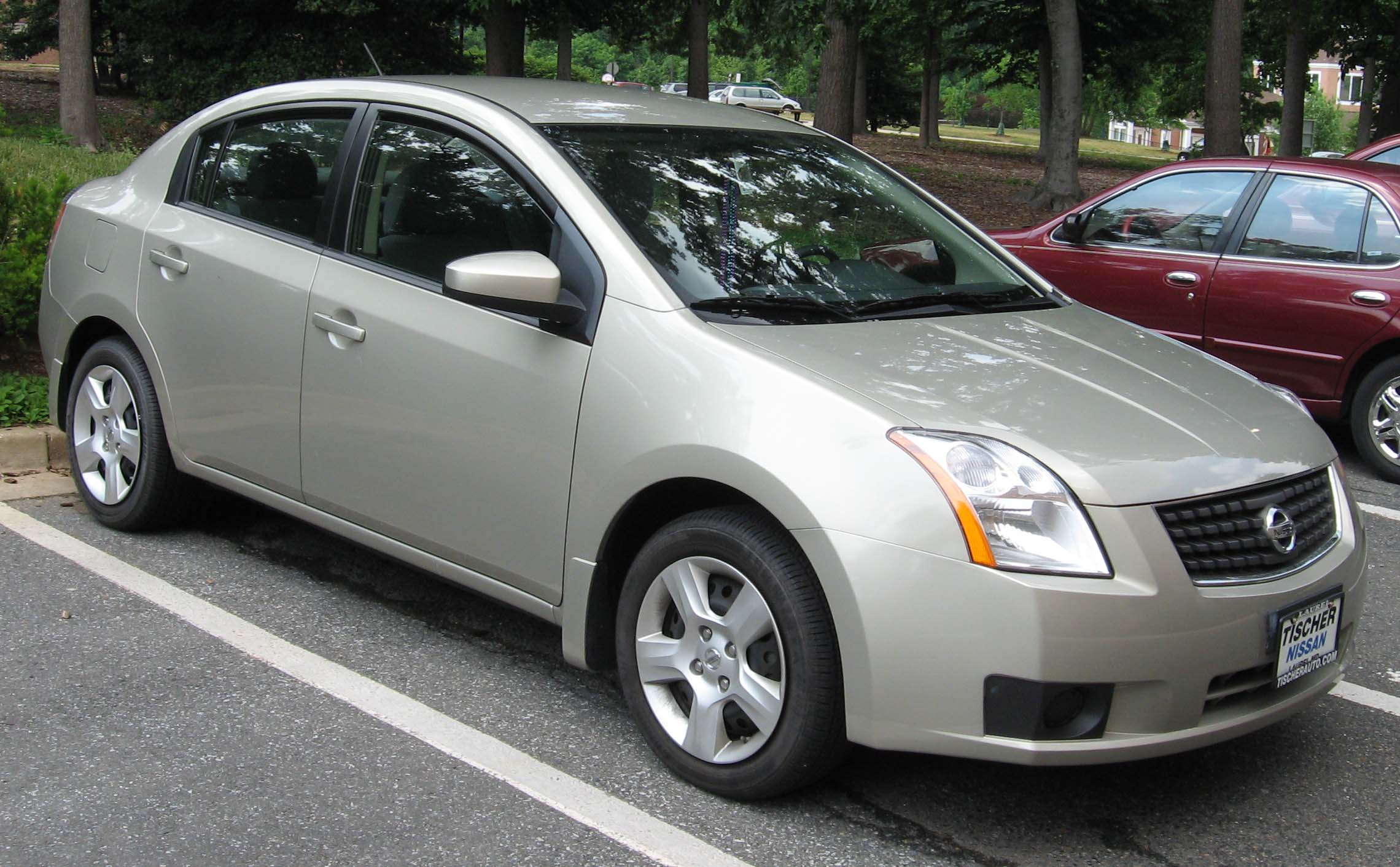 2007 Nissan Sentra photographed in USA.